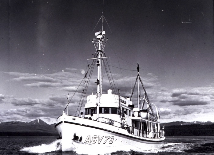 United States Coast and Geodetic Survey survey ship USC&GS Lester Jones (ASV-79)